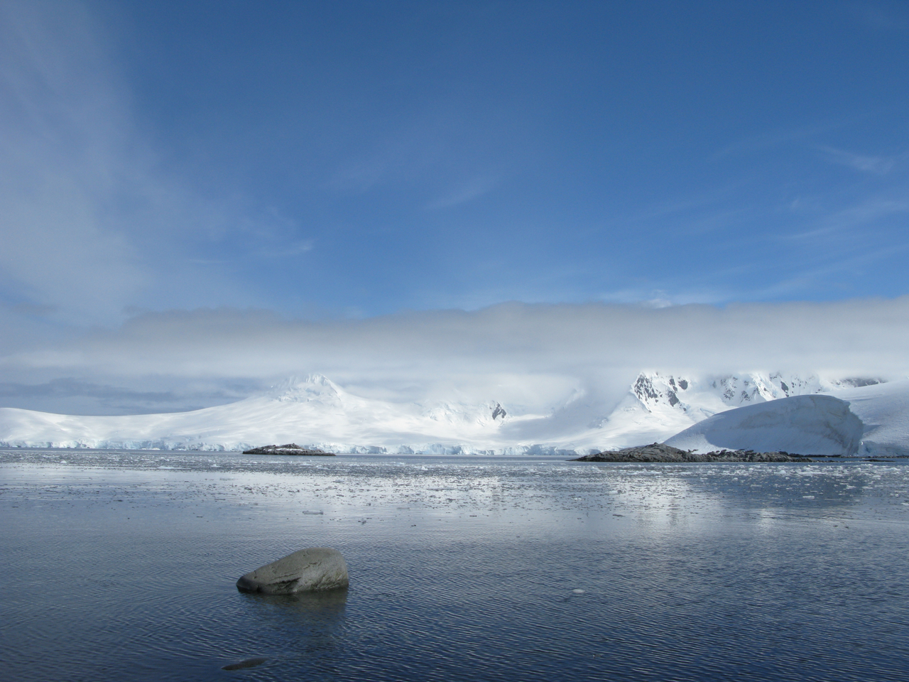 Anvers Island. Antarctic Peninsula